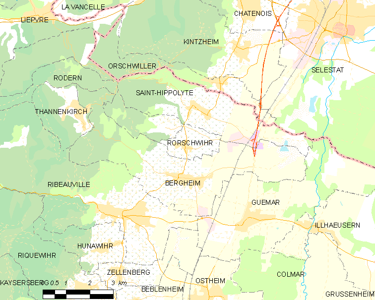 Map of French municipality